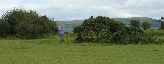 Roborough Down, above Horrabridge, Devon. An open area of heathland on the W side of Dartmoor. Vegetation was mainly bracken, gorse, and scattered broadleaved trees. There were also some large areas of open grassland. The area was used for a two day orienteering event when the picture was taken. View looking NE, with the higher land of the main area of Dartmoor visible in the background.